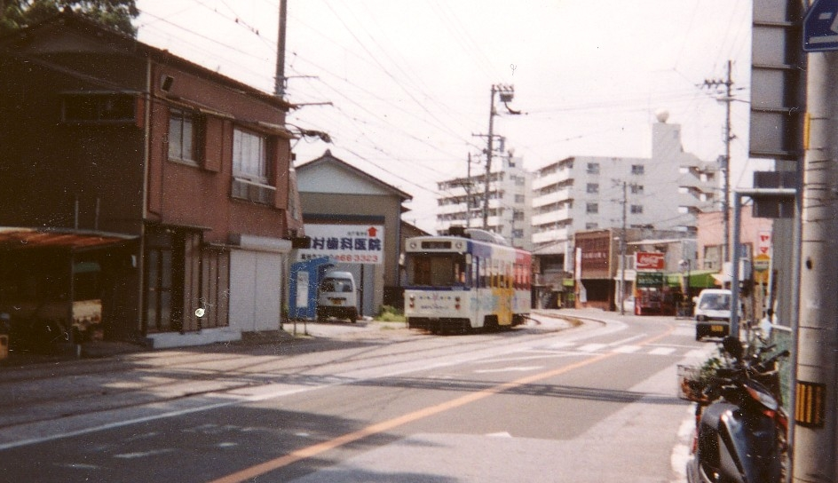 Tosa Electric Railway Ryosekidori Stop at the time of 1996